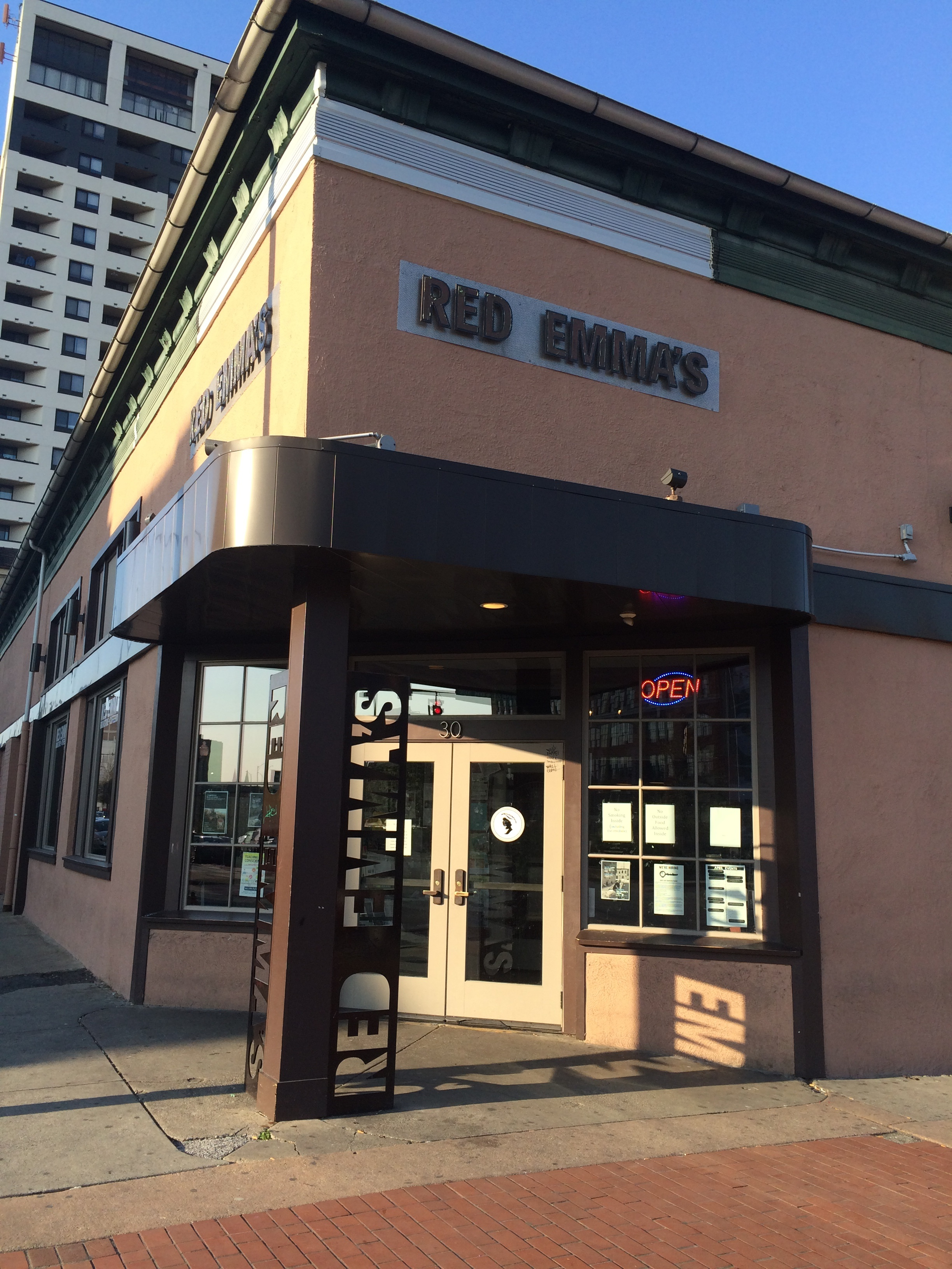 Red Emma's Facade 2